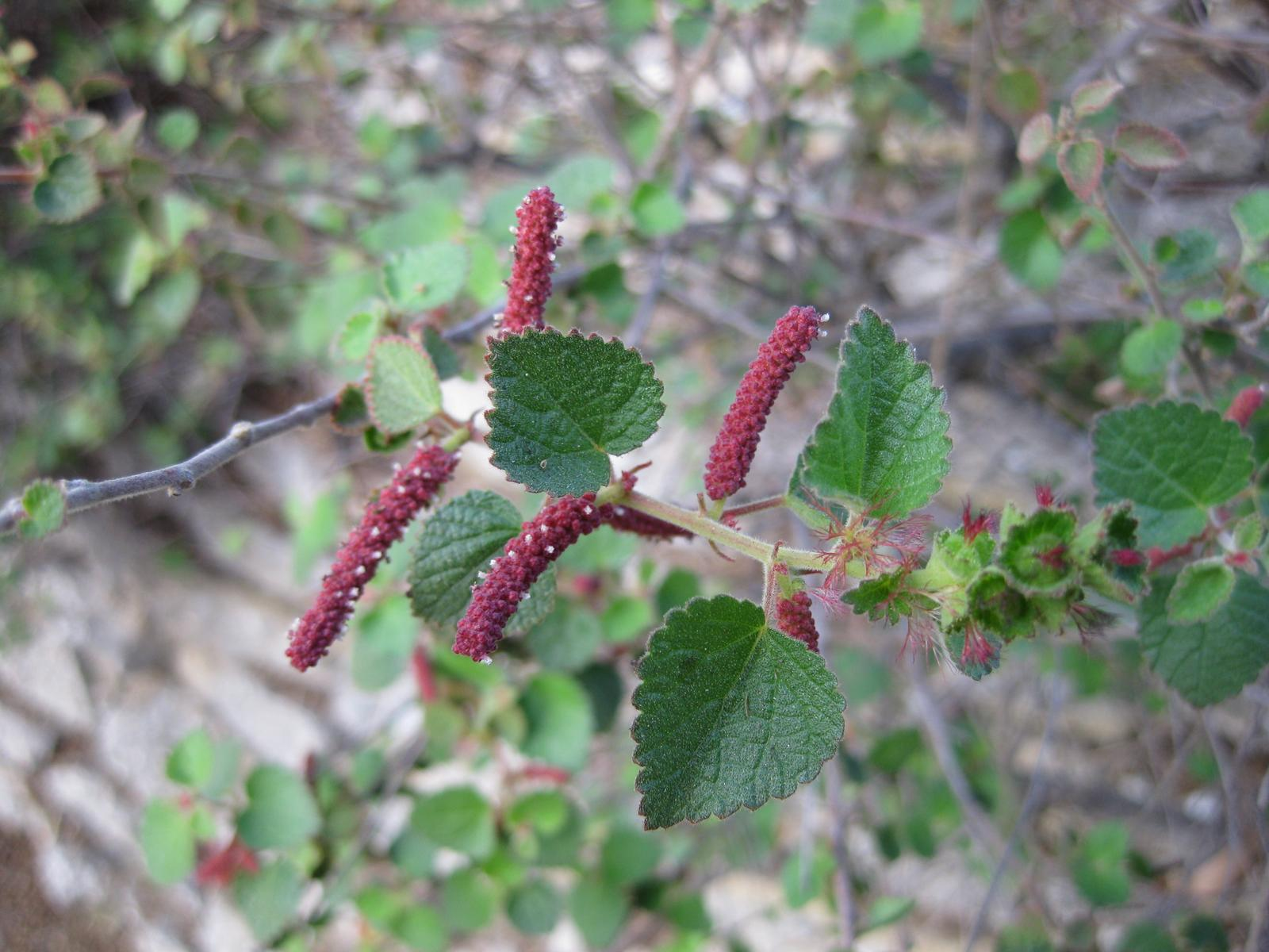 Photographed Mildred E. Mathias Botanical Garden at UCLA (Los Angeles, California) in November